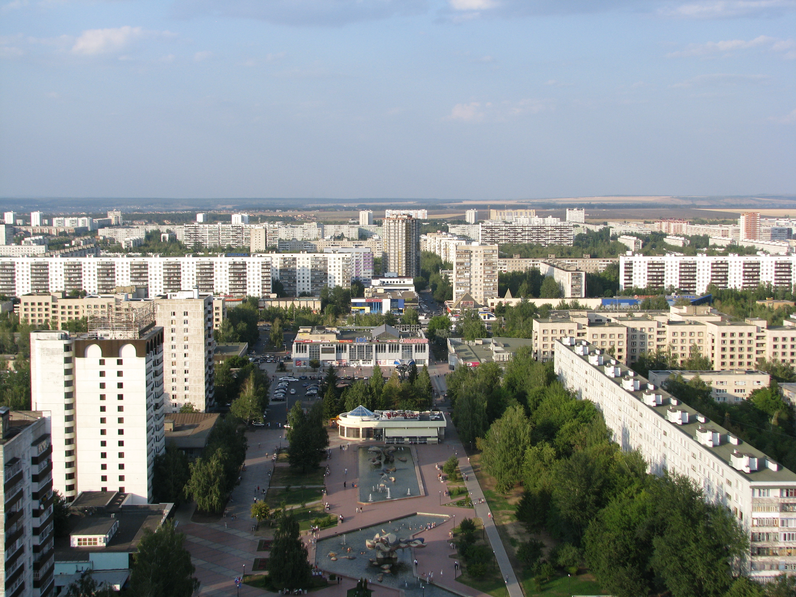 Boulevard of Enthusiasts (Naberezhnye Chelny, Tatarstan) Татарча/tatarça: Энтузиастлар бульвары (Чаллы, Татарстан)